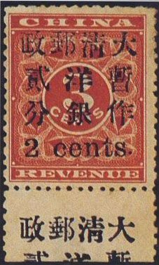 Red 43